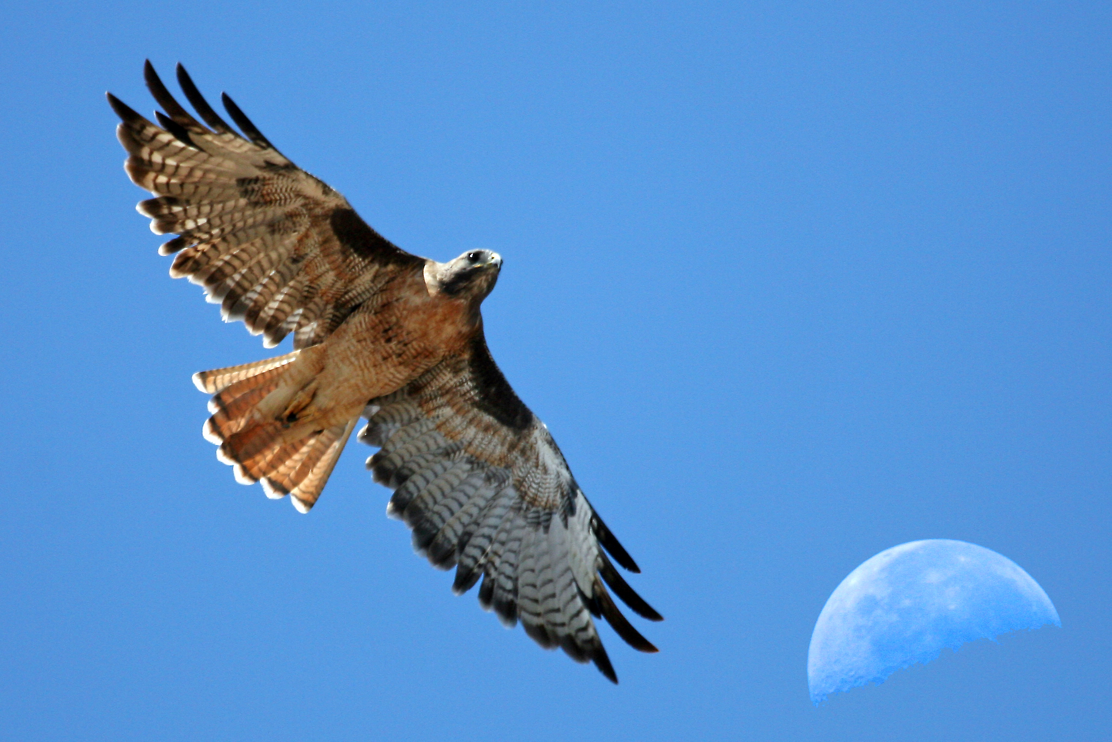 Red-tailed Hawk with moon over Estero Bay, CA - composition - to be used w/ permission by Gabriel Willow Senior Naturalist, Prospect Park Audubon Center, (718) 287-3400 x 102, gwillow at - Red-tailed Hawk and the Moon over Estero Bay - shot at the same time from the Estero Bluffs, north of Cayucos, CA, and merged into one image. Also posted at At click to get full-resolution version (2281x1523), or Photoshop .psd version 09 March 2011. Creative Commons use approved for Red-tailed Hawk with moon : "I'm working on in interpretive panel for the Sespe Wilderness [ ? ]. I would like to use your photo of the red-tailed hawk over Estero Bay on the panel. The image online is large enough. I would just like to respect your terms of use. Please respond to clearviewstudio [at} cox d o t net. Thank you, Mary KirkPatrick A: The largest original is at (2281 x 1523) answers every question ever asked about using one of my photos under Creative Commons (CC) Attribution: How to attribute, access full-resolution versions, how to link back to the image page, and how to please comment on the image used linking to your use.